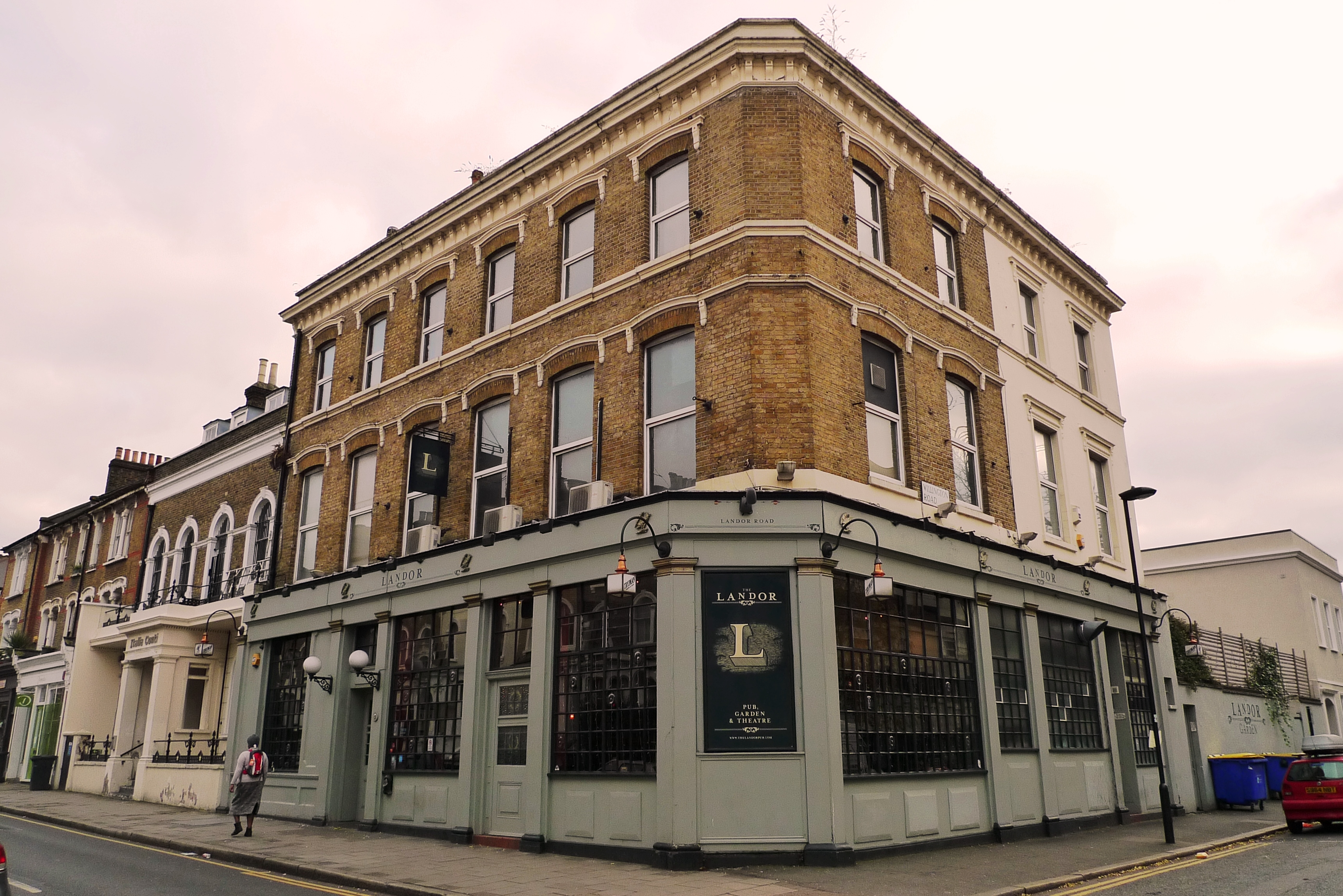 A nice place near Clapham North station with a theatre attached. ( Older photo of it. ) Address: 70 Landor Road. Owner: ( website ); Truman Hanbury Buxton (former). Links: London Pubology